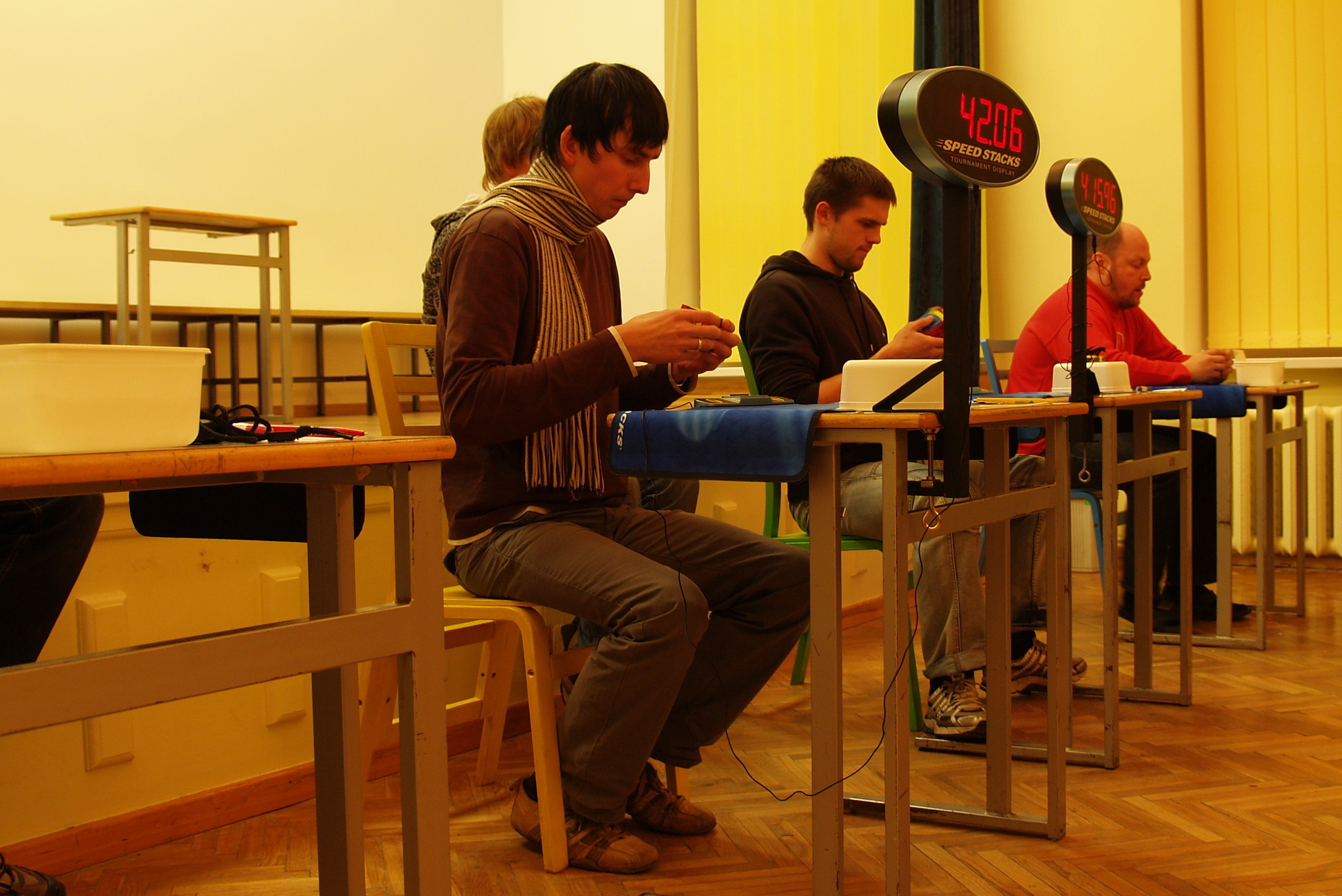 Estonian Open 2009. Solving 5x5x5 cubes.Winner of this event was Teemu Tiinanen with 2:35.24 as the average of 5.Uku Kruusamägi made two new Estonian records: 3:02.08 (average) and 2:50.30 (best solve)